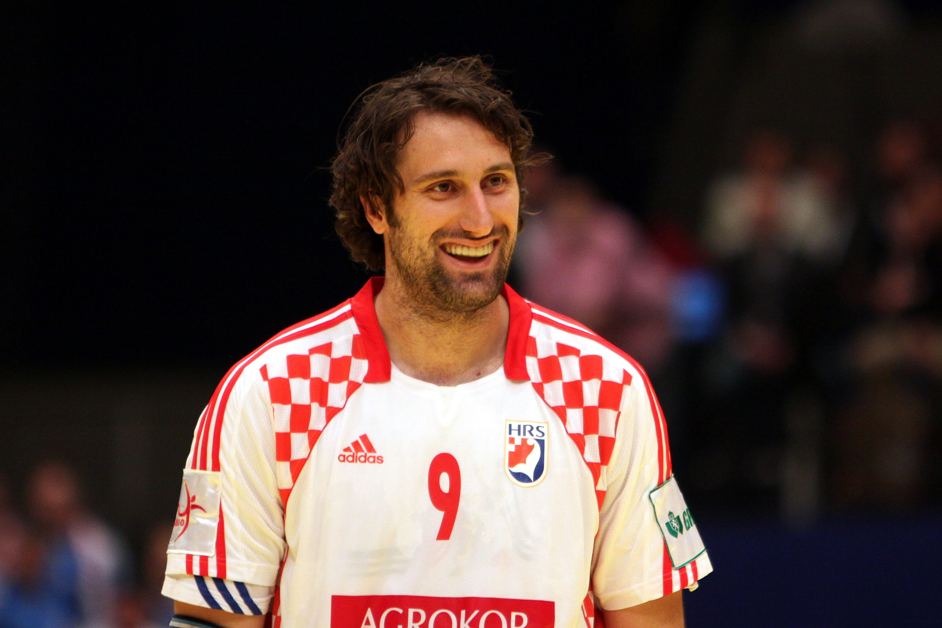 Igor Vori (HSV Hamburg), Croatia national handball team